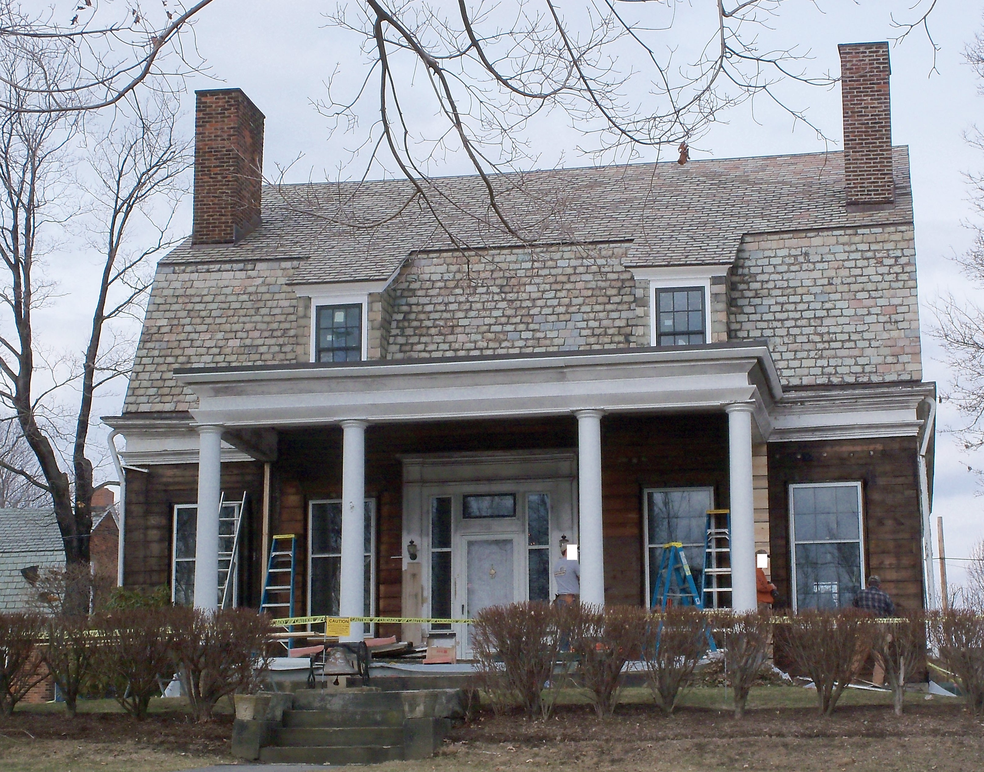 Hanna-Kenty House, a house on the National Register of Historic Places in Columbiana County, Ohio